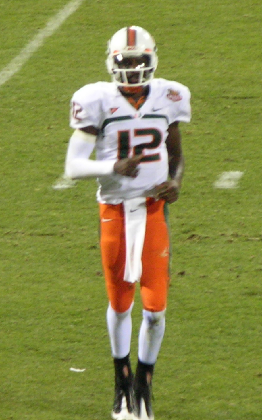 Miami quarterback Jacory Harris comes off the field during the 2008 Emerald Bowl between the California Golden Bears and Miami Hurricanes. The Golden Bears won 24-17.